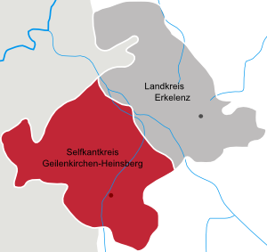 Map of the Selfkantkreis Geilenkirchen-Heinsberg